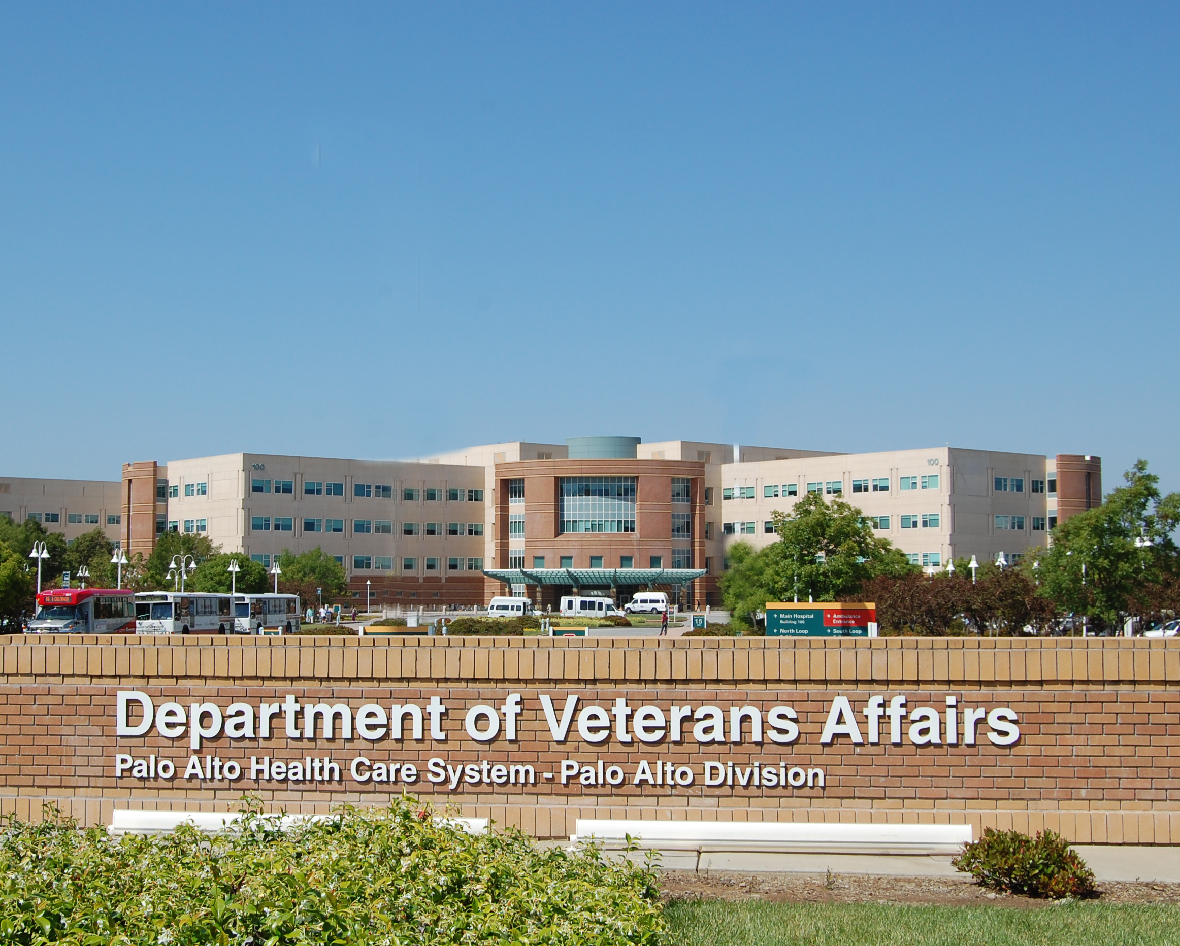 Flickr description VA Palo Alto Health Care System 3801 Miranda Avenue Palo Alto, CA 94304 650-493-5000 Department of Veterans AffairsPalo Alto Health Care System - Palo Alto Division